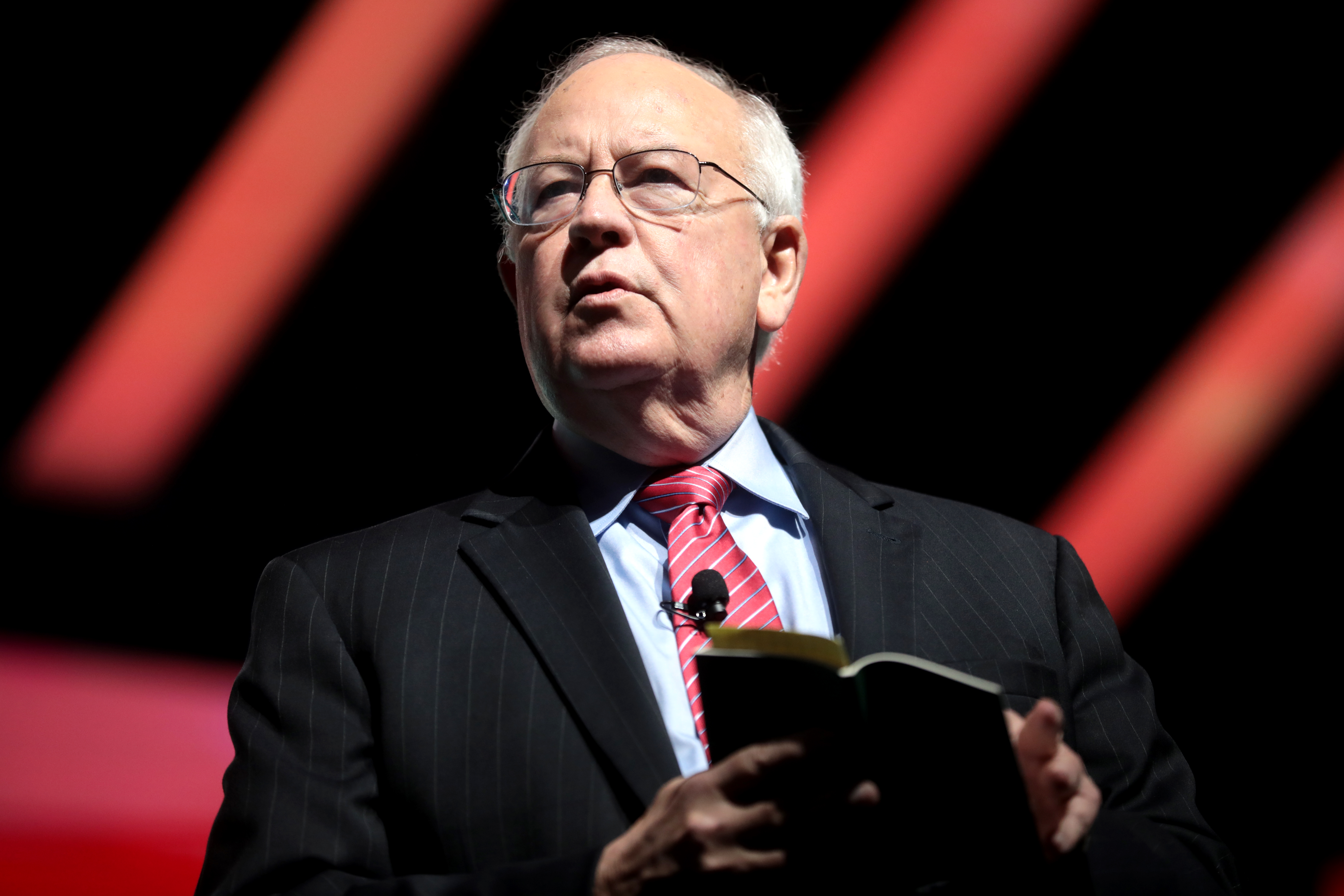 Ken Starr speaking with attendees at the 2019 Student Action Summit hosted by Turning Point USA at the Palm Beach County Convention Center in West Palm Beach, Florida.